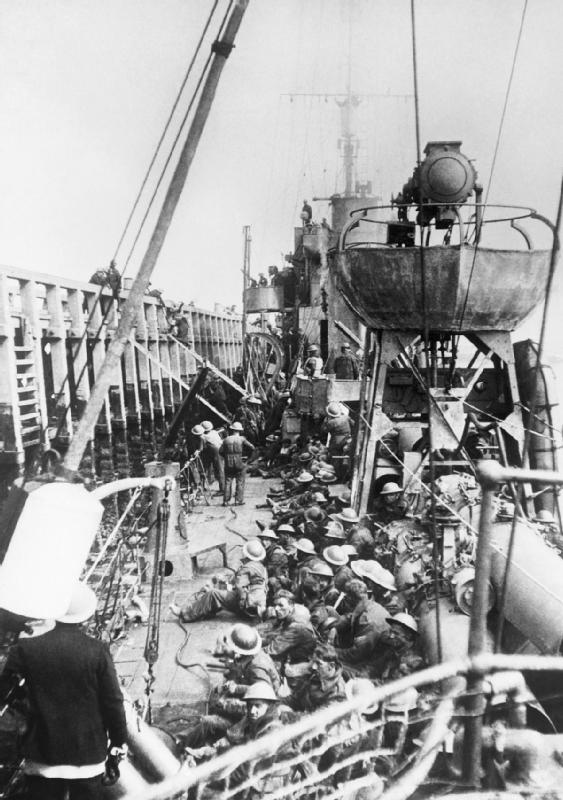 Dunkirk 1940 British troops boarding the destroyer HMS VANQUISHER at low tide from the Mole at Dunkirk, using scaling ladders.